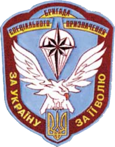 Shoulder Sleeve Insignia of the 8th Separate Special Force Brigade